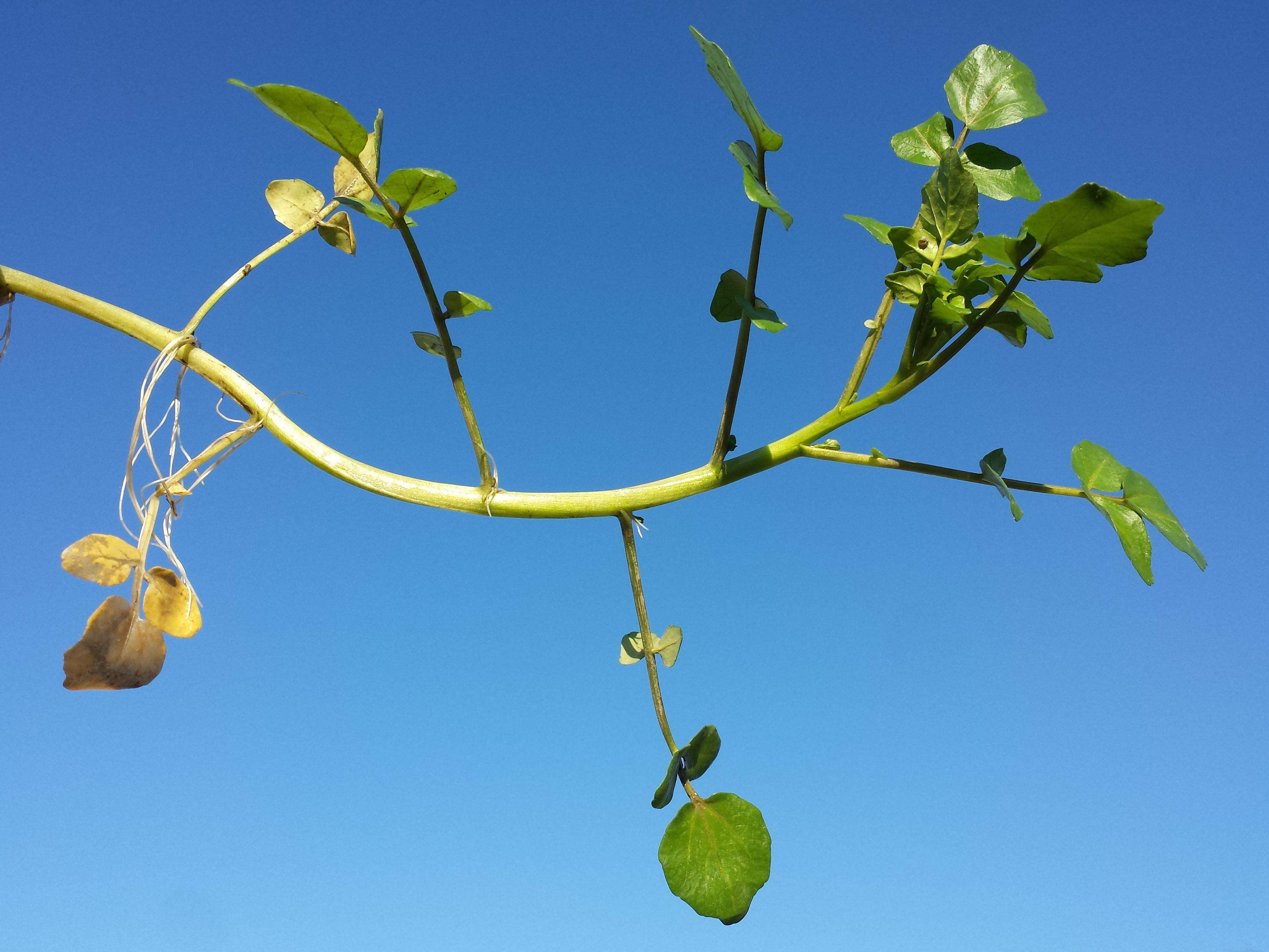 Stem with leaves Taxonym: Nasturtium officinale ss Fischer et al. EfÖLS 2008 ISBN 978-3-85474-187-9 Location: Senningbach next to Hatzenbach, district Korneuburg, Lower Austria - 180 m a.s.l. Habitat: stream